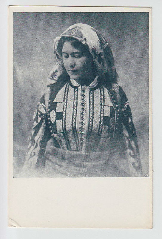 Traditional woman clothes from Gostivar, Macedonia